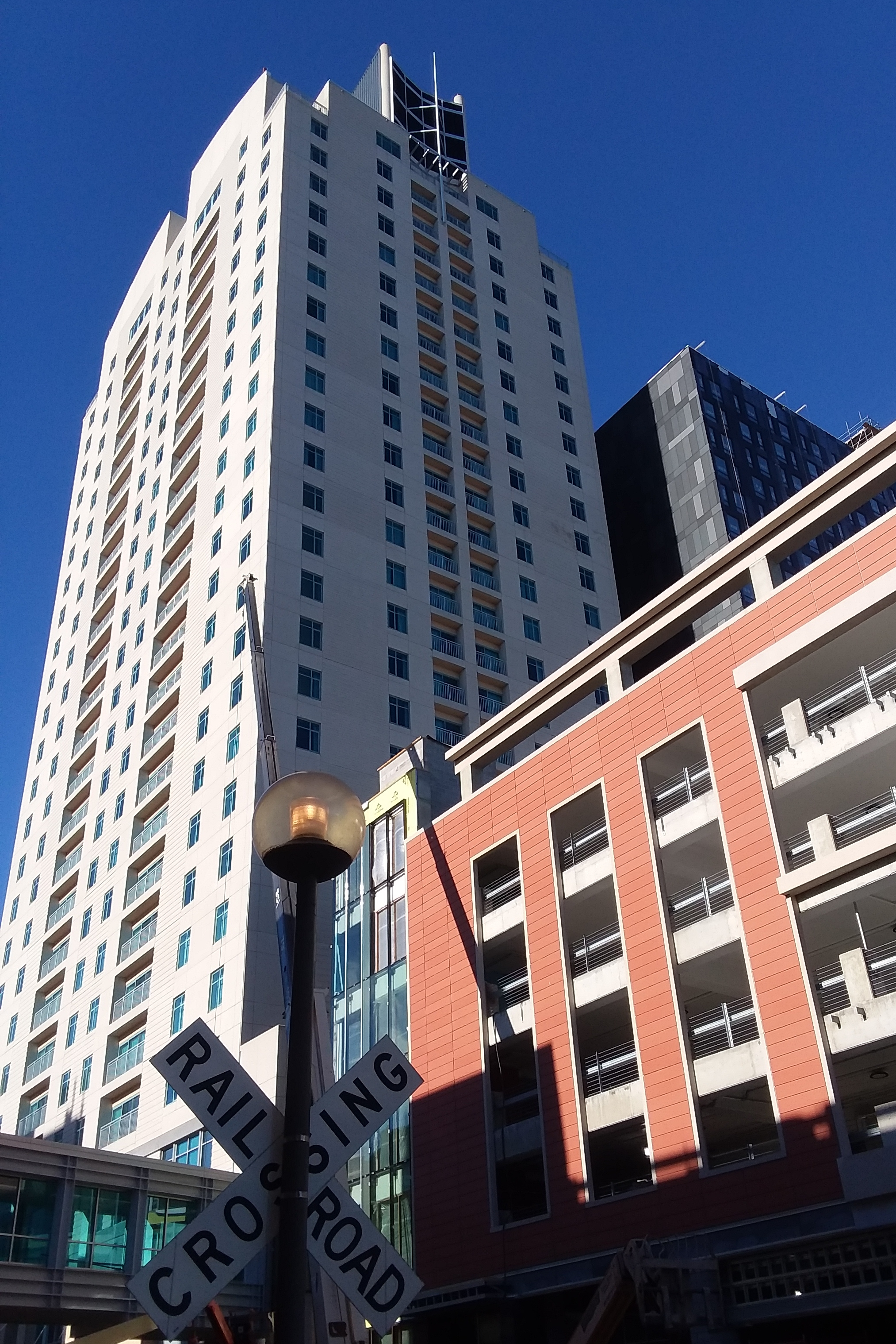 Broadway Plaza seen from street level in 2019